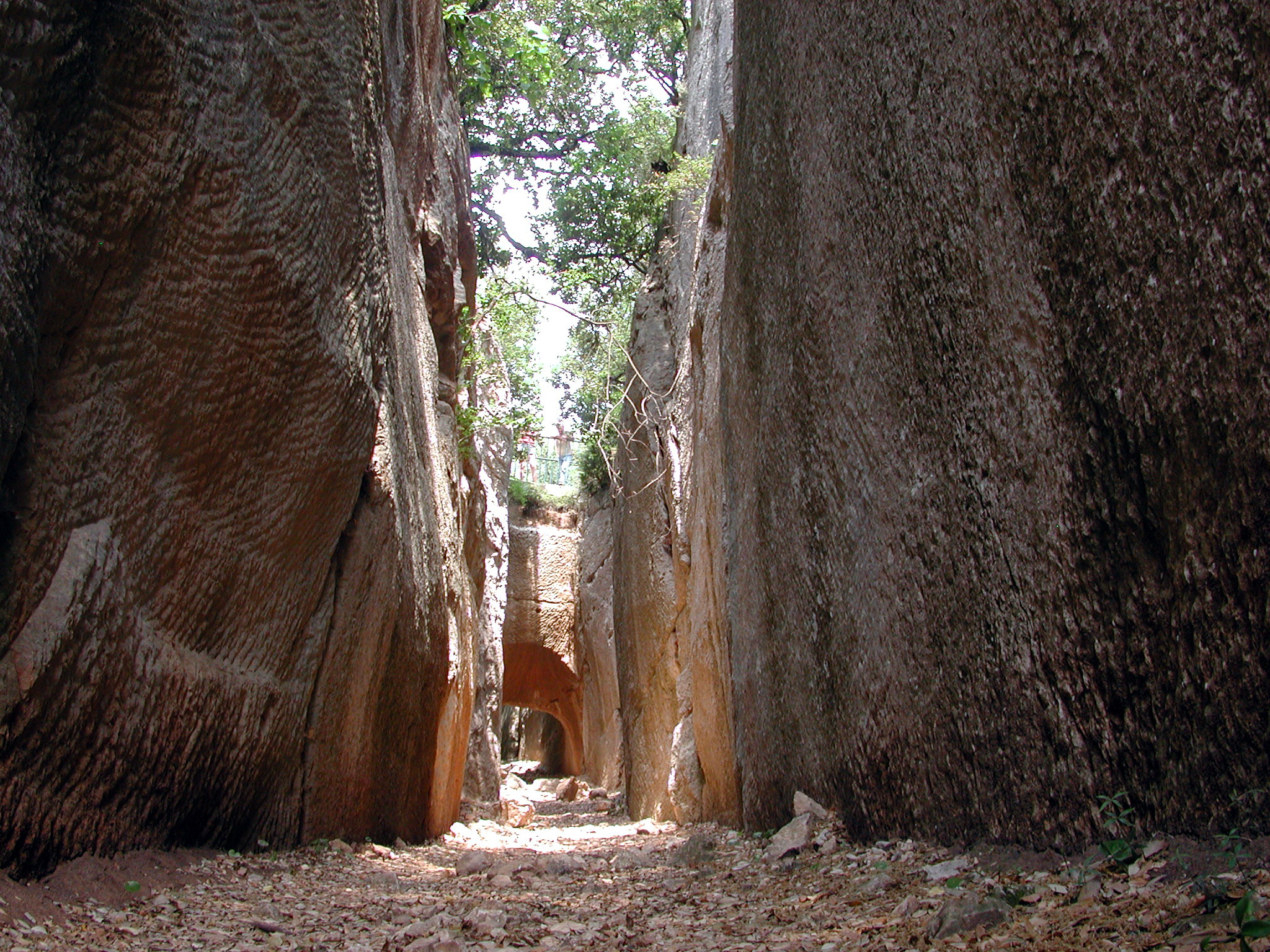 Fréjus's Aqueduct : Roche Taillée ; the second rock cutting (the first collapsed